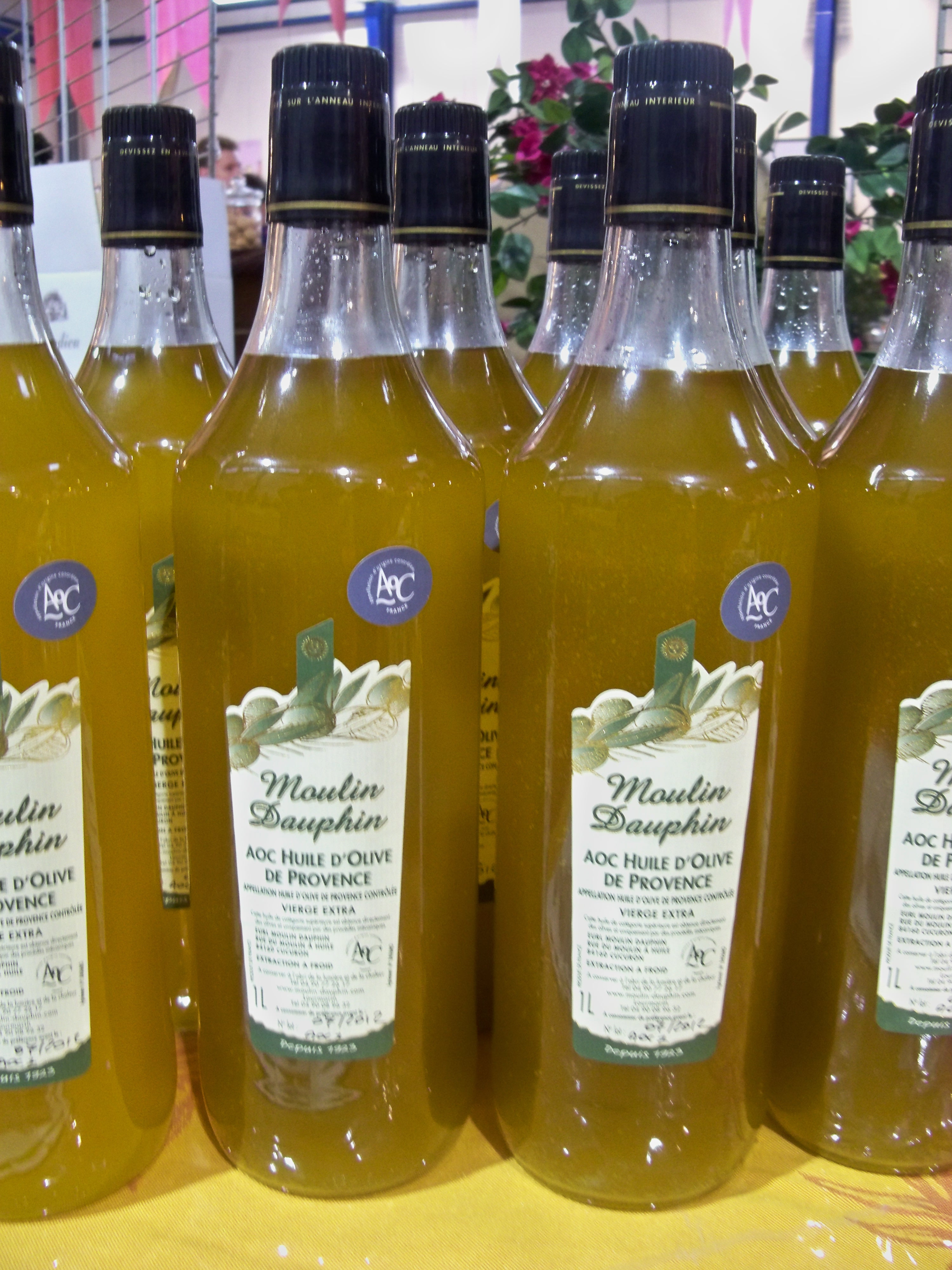 olive oil from Provence